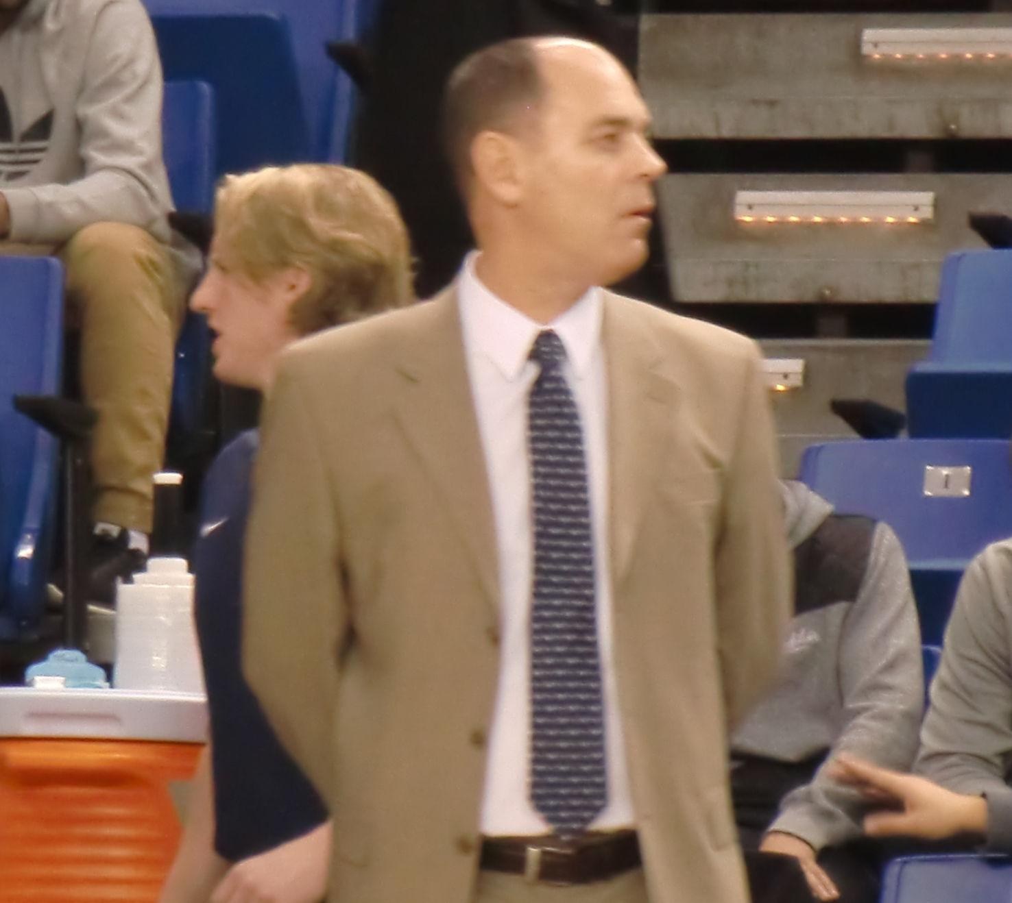 Utah State University men's basketball head coach Tim Duryea before Utah State's game at San Jose State on Dec. 30, 2015 at the Event Center in San Jose, Calif.